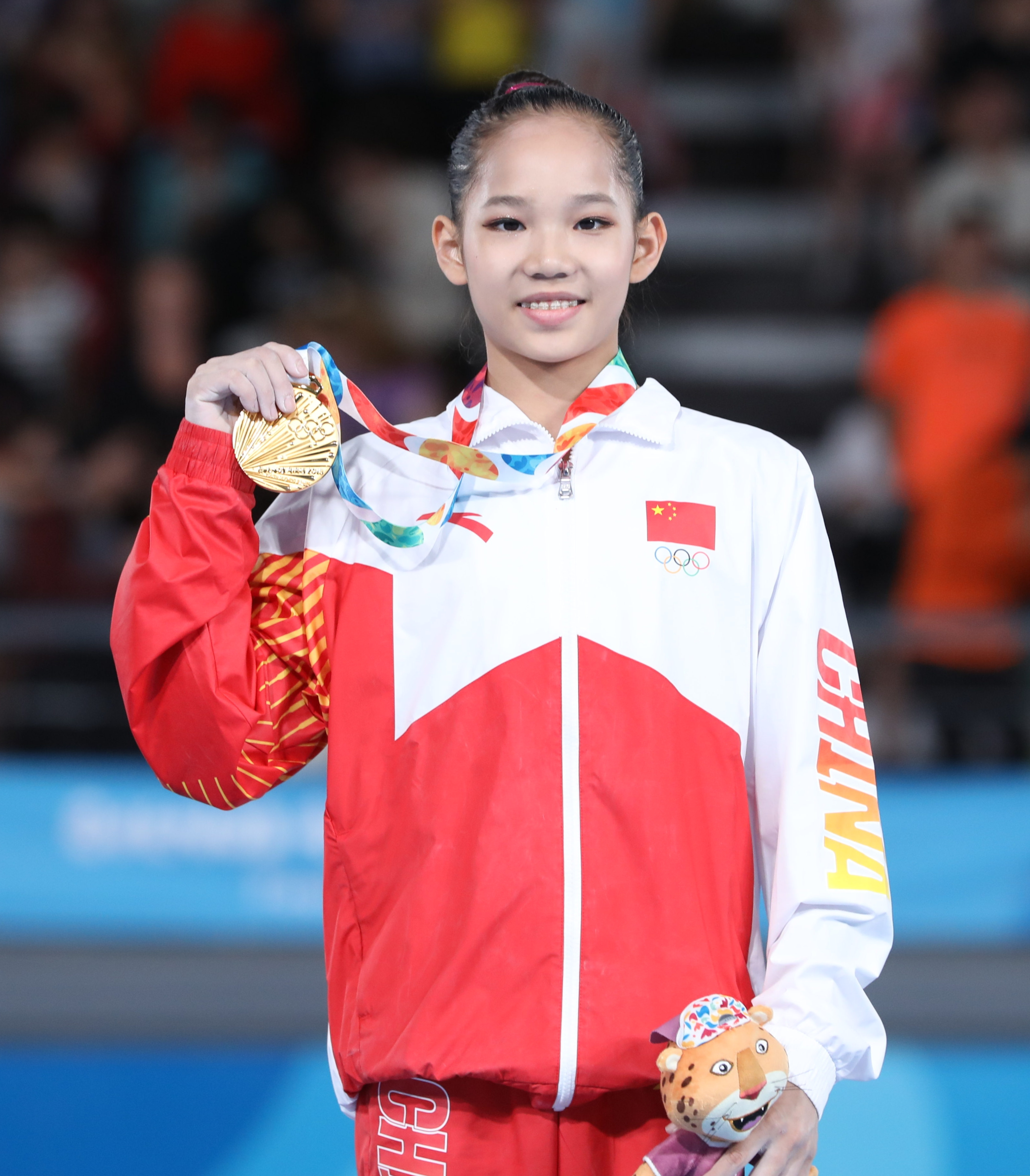 Girls' Artistic Gymnastics, Balance beam: Victory ceremony